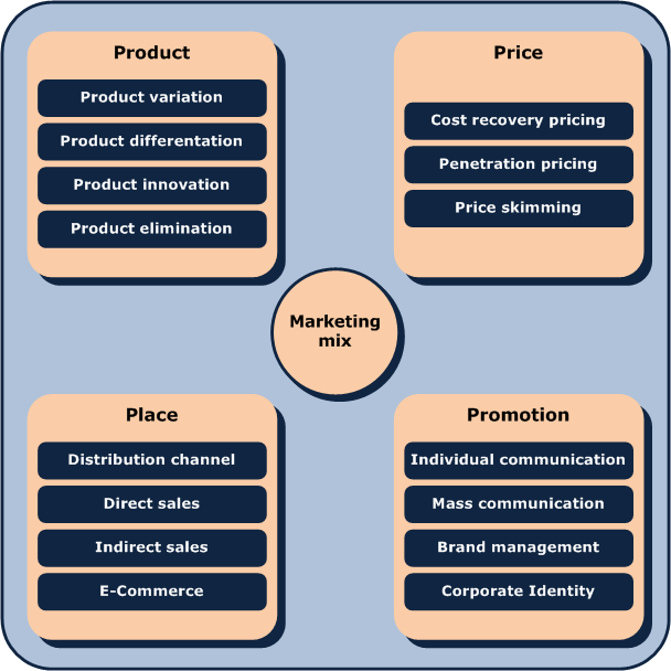 Representation of a Marketing-Mix with the four instruments product, price, distribution and communication.